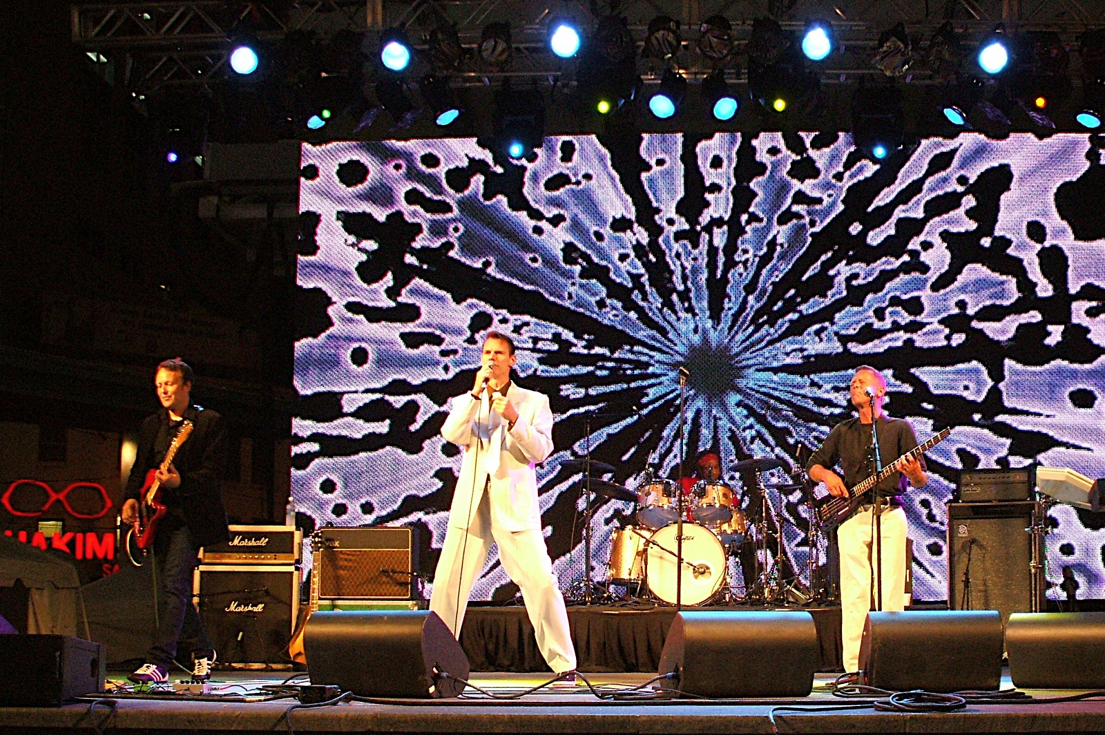 Canadian band Blue Peter in concert at the Toronto International Film Festival